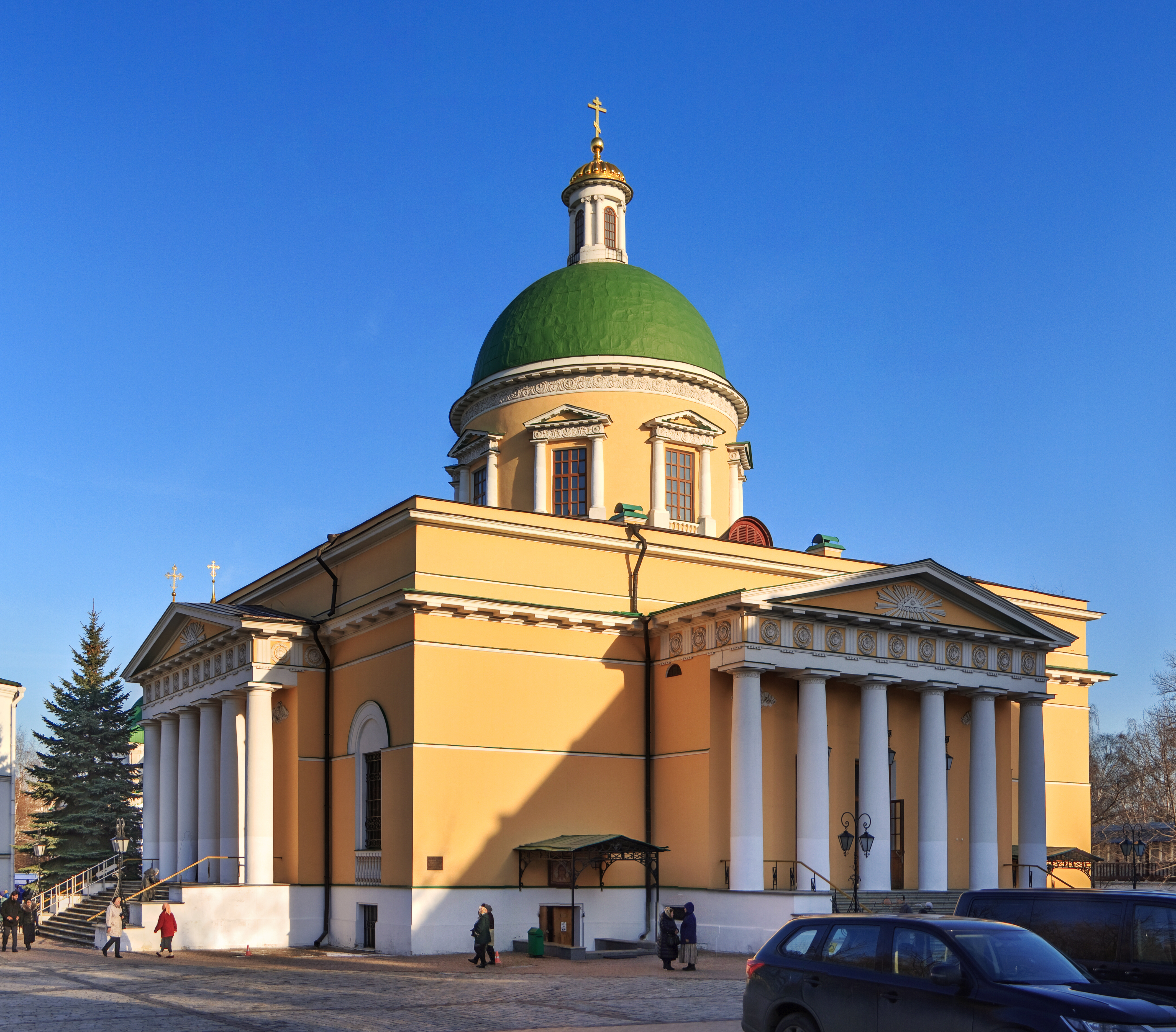 Holy Trinity church of Danilov Monastery, Moscow, Russia